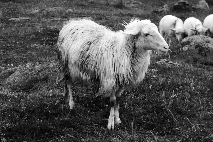 The Sardinian (Brabei Sarda in Sardinian, Pecora Sarda in Italian) is a breed of domestic sheep from the island Sardinia. It was developed from crosses of local lowland sheep, Merinos, and North African sheep.[1] The Sardinian is primarily used to produce sheep milk for distinctive cheeses such as Pecorino Sardo, but also has a long, coarse white wool that is prized for weaving carpets and other goods. Ewes are polled, and rams are occasionally horned.